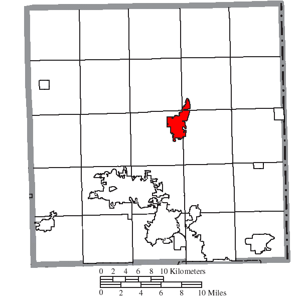 Map of the municipal and township boundaries of Trumbull County, Ohio, United States, as of the 2000 census, with the location of the city of Cortland highlighted. Township borders are shown only in unincorporated areas in order to differentiate incorporated and unincorporated areas more clearly.